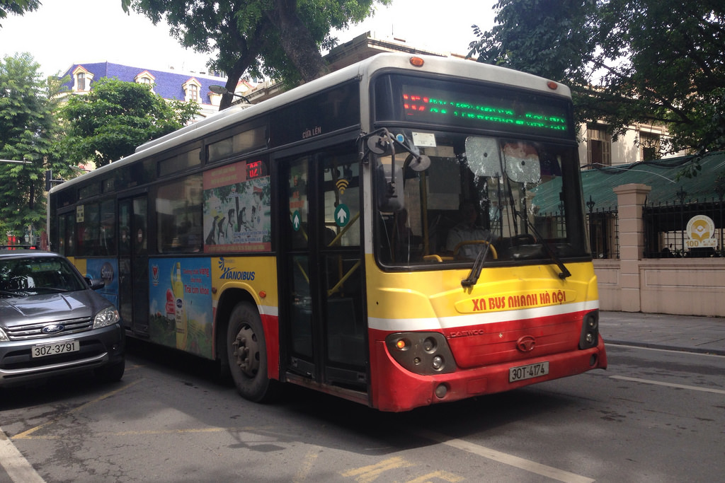 waiting for 09